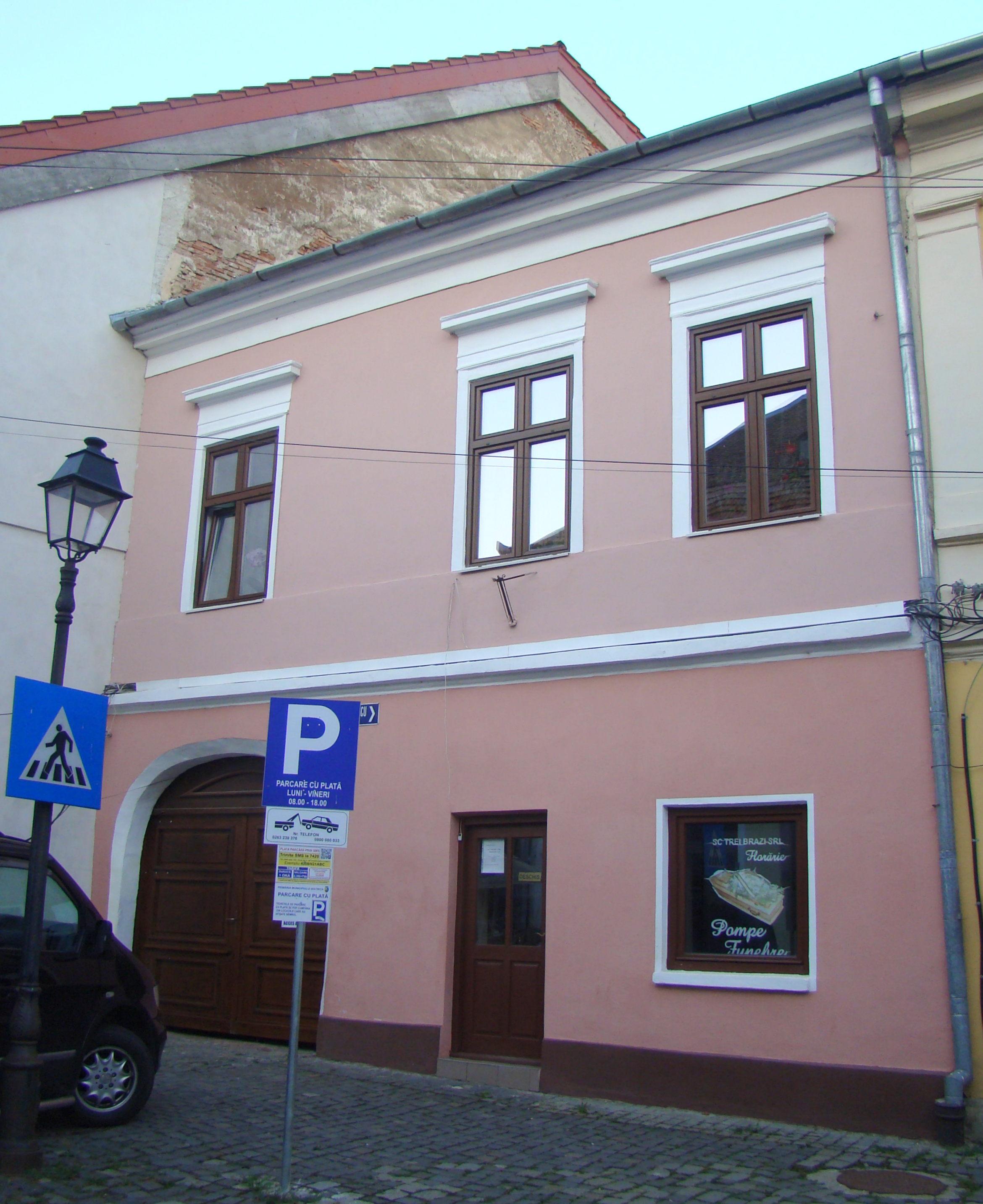 House, historic monument, in Bistrița, Nicolae Titulescu street 1